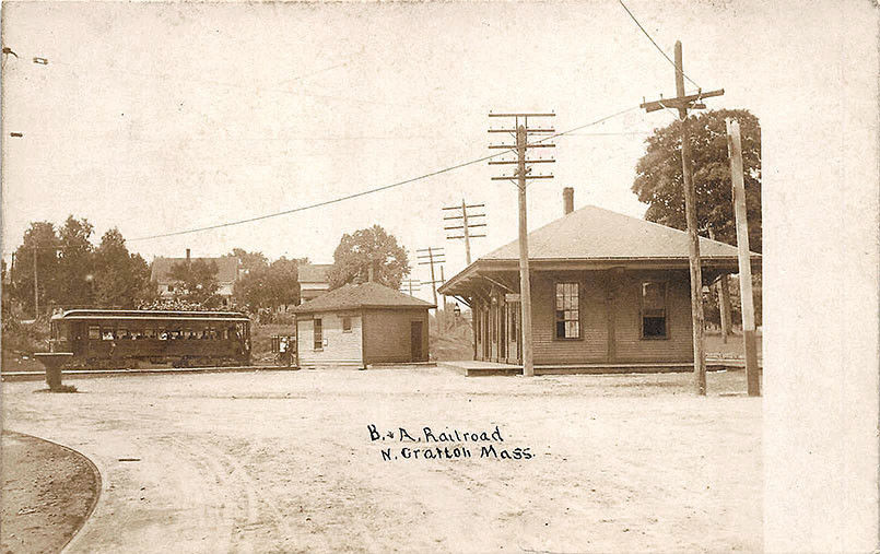 A streetcar (probably a Upton Street Railway car running on the Grafton & Upton) and North Grafton station on an early postcard